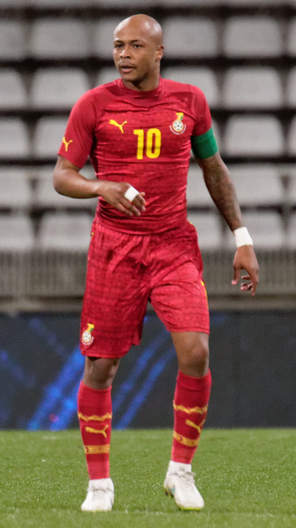 Mali vs Ghana, exhibition game at Paris, 31st March 2015.